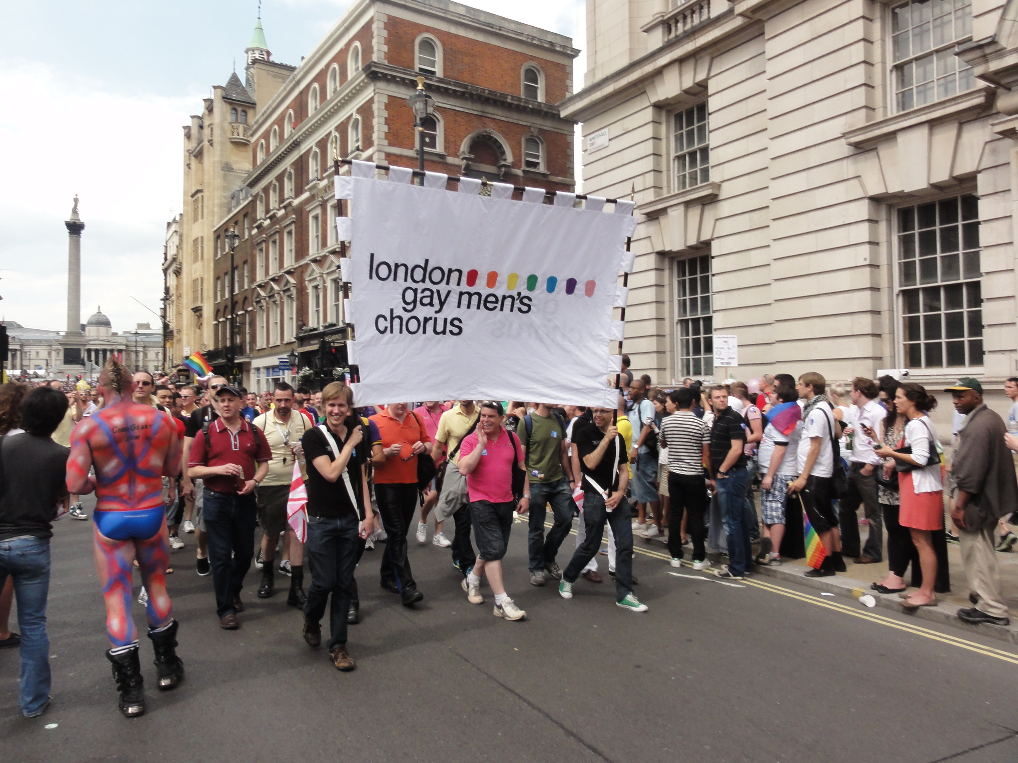 The London Gay Men's Chorus marching down Whitehall as part of Pride London 2011.